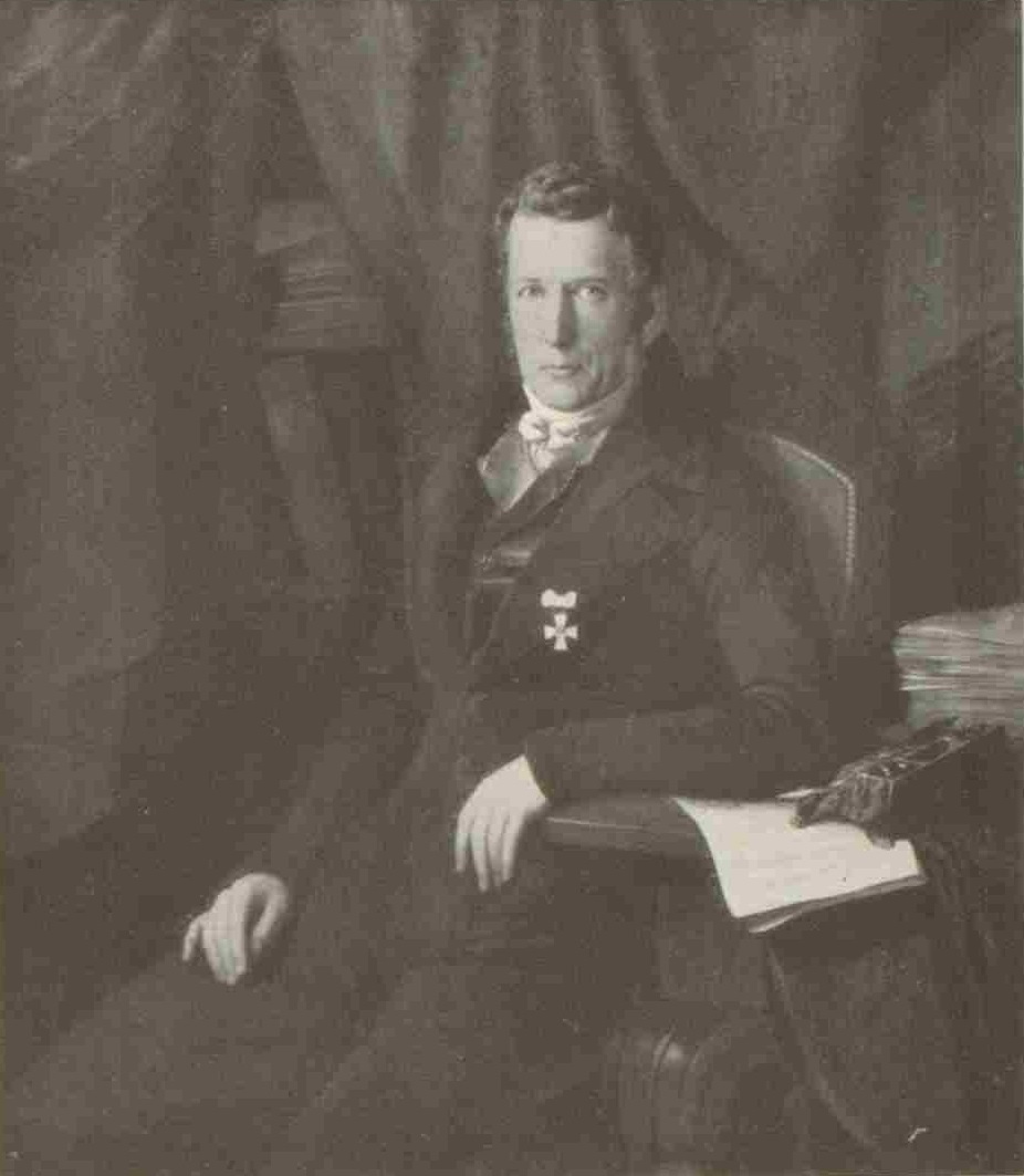 Portrait of Gottlob Ludwig Demiani